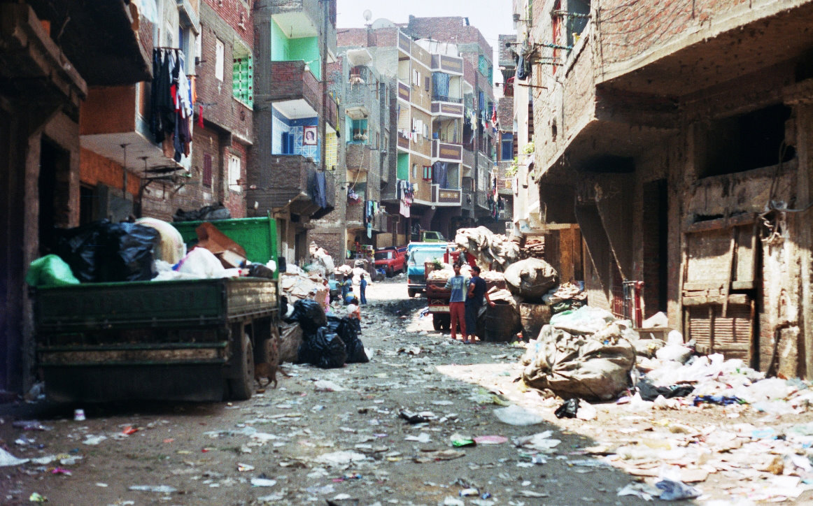 Garbage City